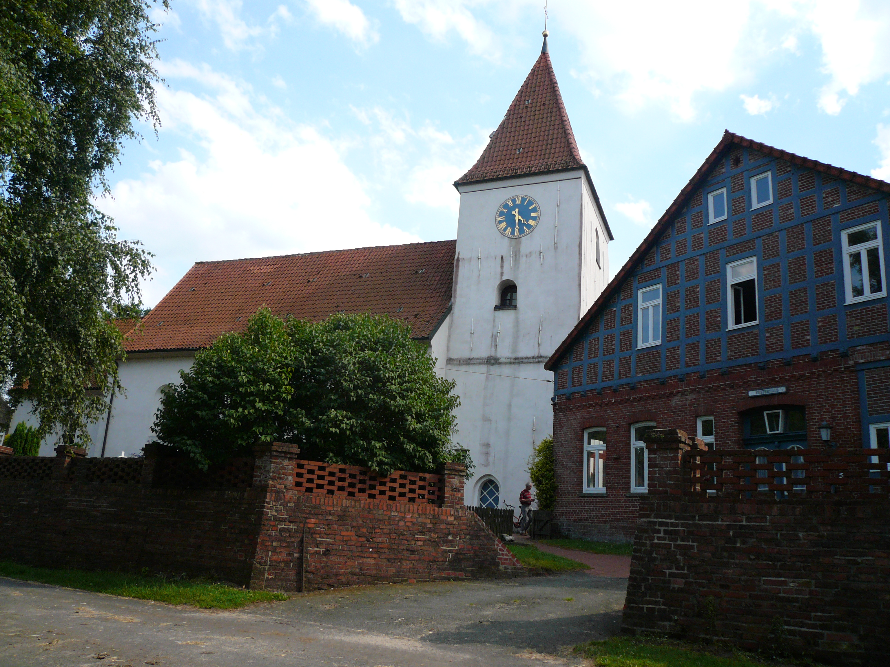 The church of St. Jürgen in Lower Saxony